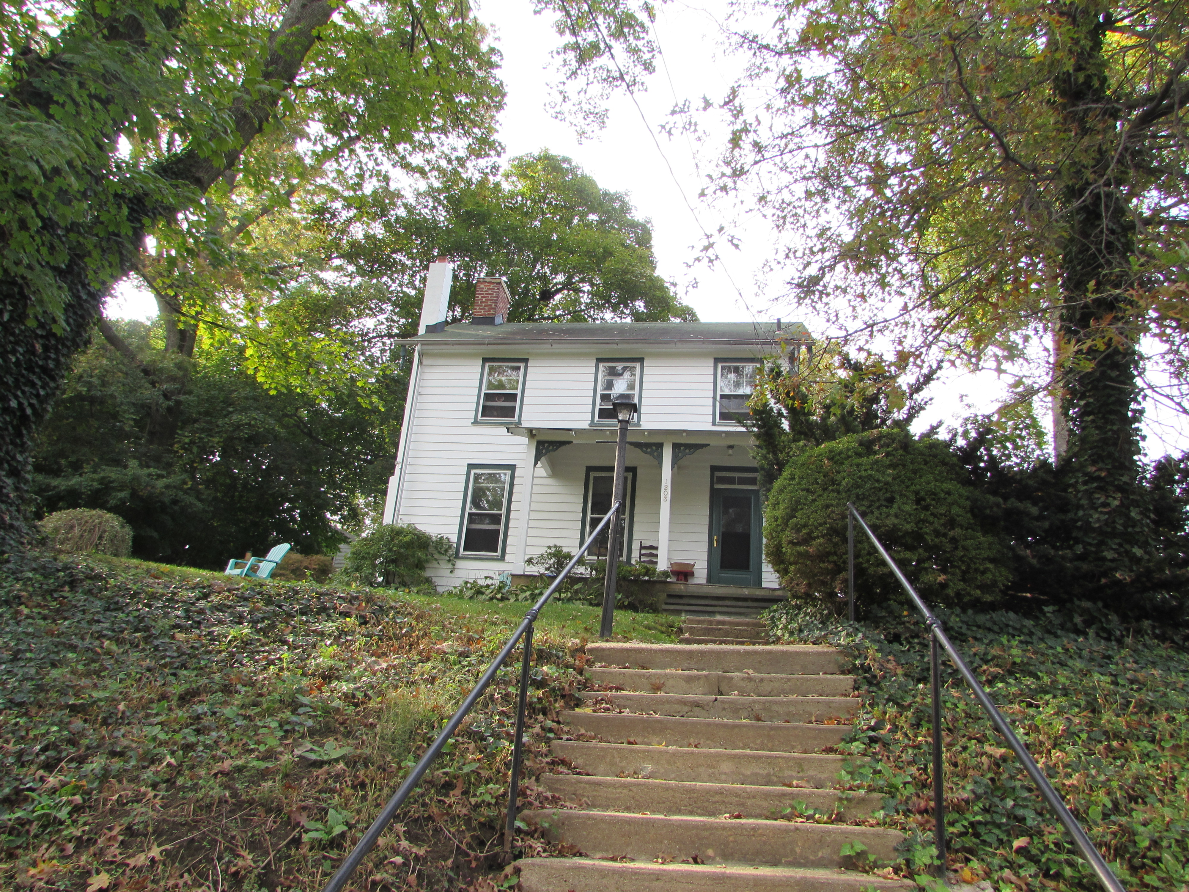 Front of the Hickman House at 1203 Greenbank Road, Marshallton, Delaware, on the National Register of Historic Places. Built about 1860 by Erasmus Hickman. The sugar maple on the left was the 5th larges in Delaware at the time of NRHP nomination in 1994, and believed to be over 100 years old.